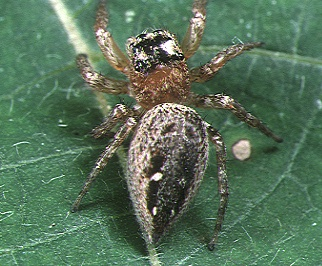 female Burmattus pococki from Okinawa.